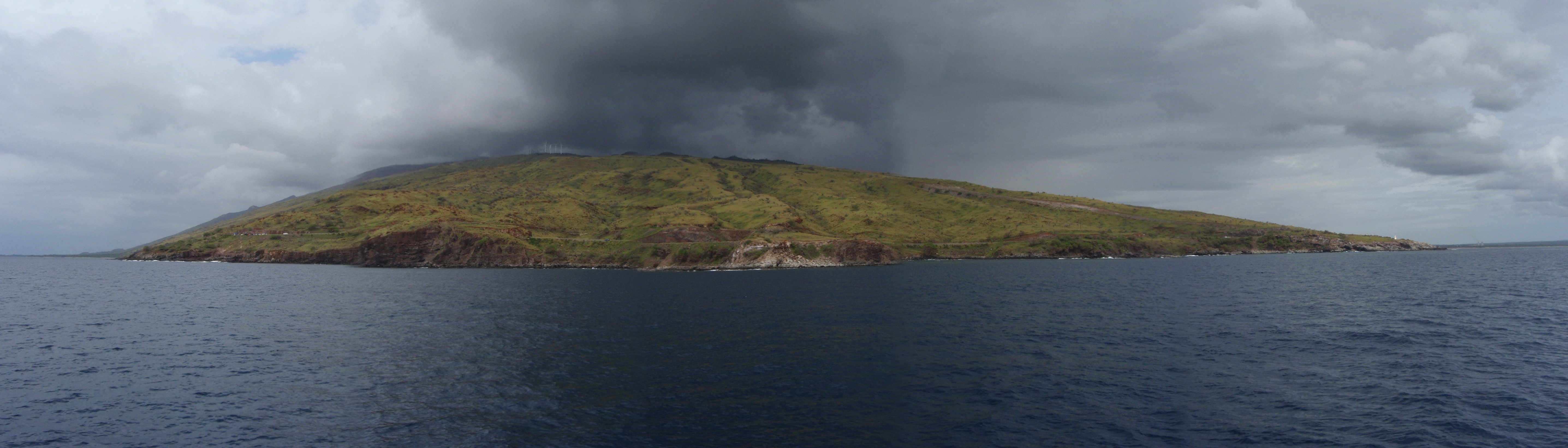 A panorama of Maui in Hawaii showing the West Maui Mountains. Taken from a boat near Lahaina. Four photos stitched together with DoubleTake, minor contrast adjustments done in iPhoto.